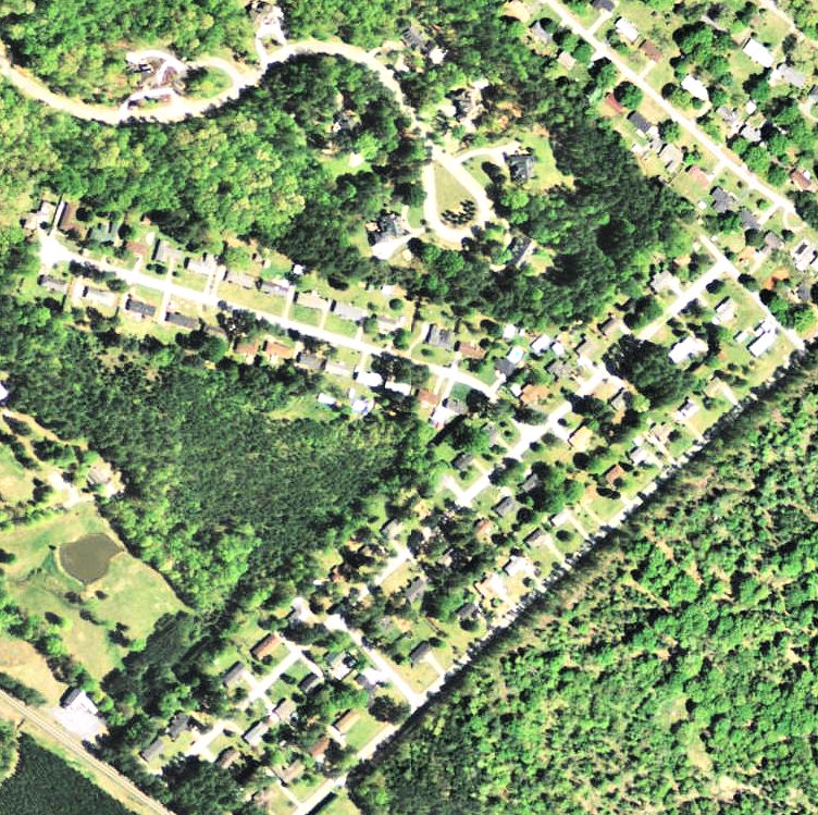 USGS digital orthophoto of Chinquapin Airport in South Carolina